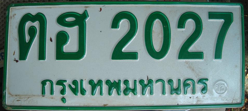 Thai four-wheeled vehicle (personal trucks (pick-up)) plate